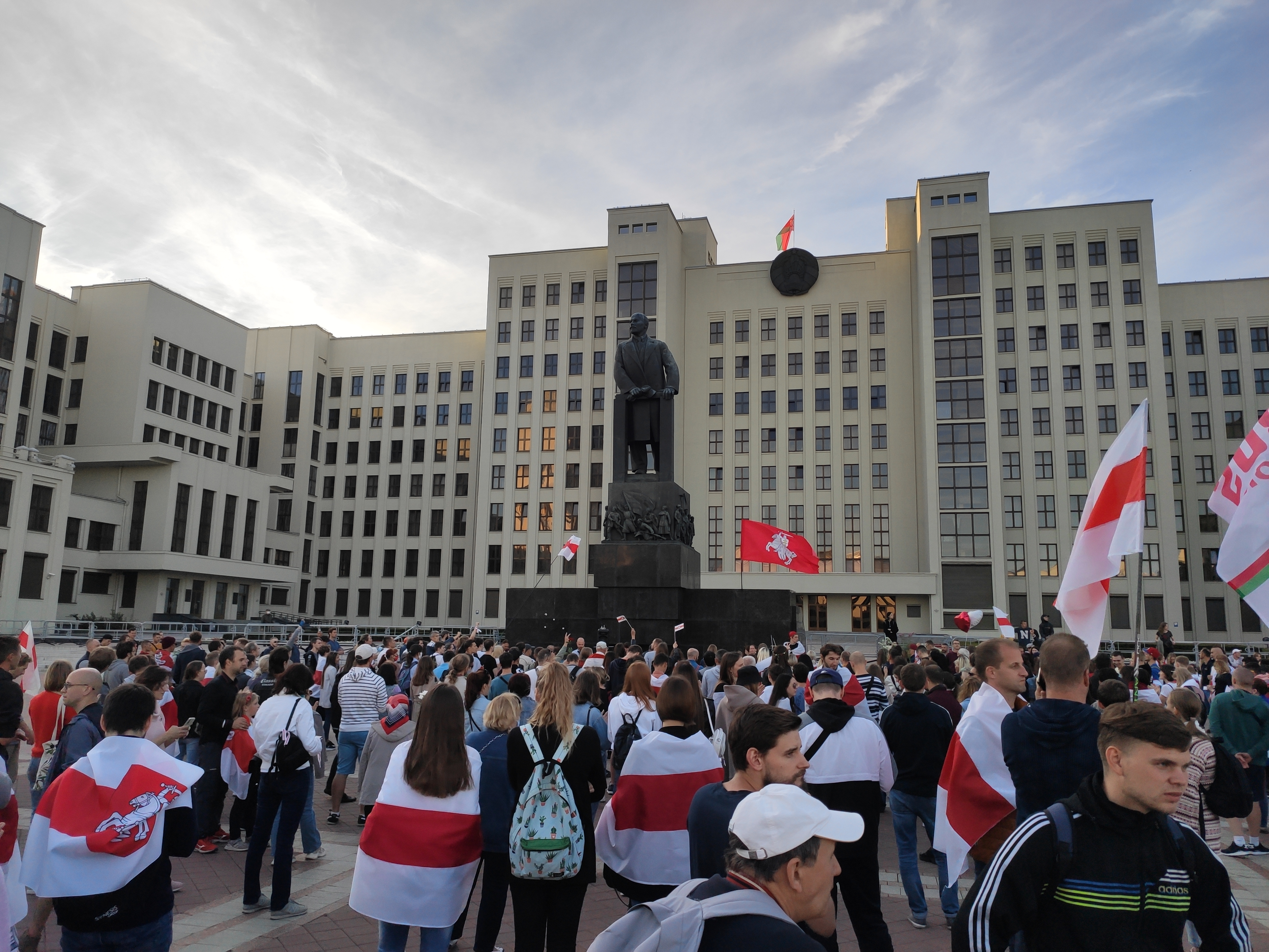 Protest against Alexander Lukashenko in Minsk on Aug 22, 2020